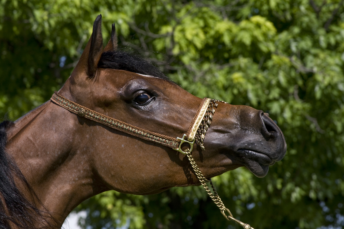 Close up of an Arabian mare with a show halter on